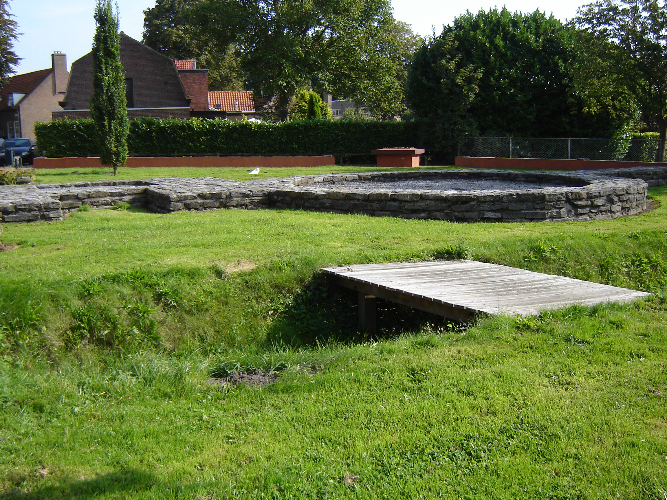 Reconstruction of the foundations of the Roman castellum (2nd - 3rd century AD) in Aardenburg. Aardenburg, Sluis, Zeeland, Netherlands